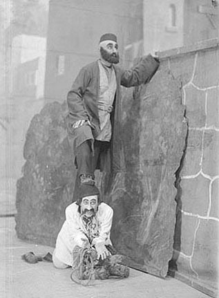 Stage from perfomance of "Meshadi Ibad" (or "If not that one, then this one") in Azerbaijan State Theatre of Opera and Ballet. Director Abbas Mirza Sharifzade.